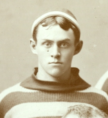 Howard Abbott cropped from 1889 University of Michigan football team